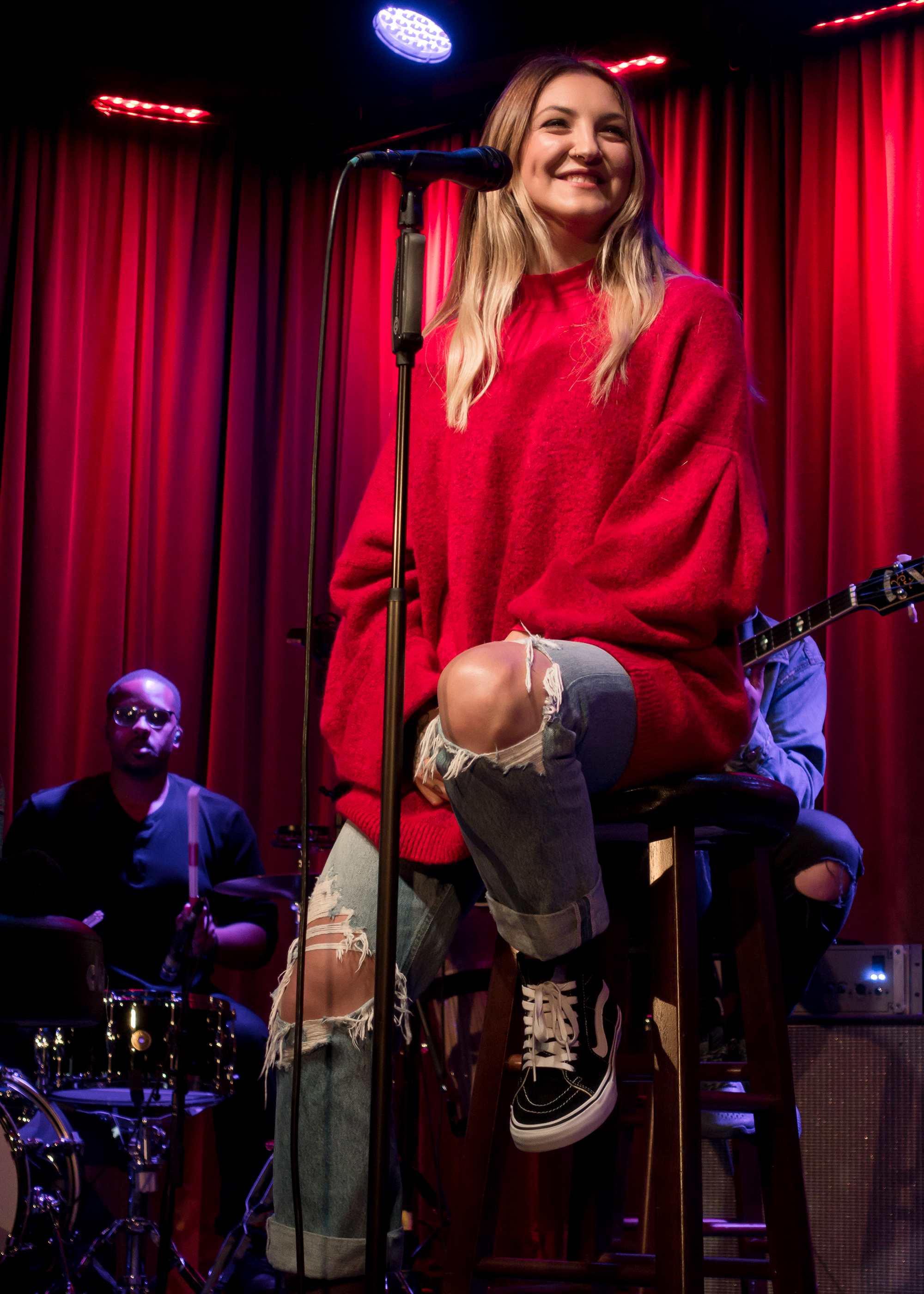 Julia Michaels live at the Grammy Museum in Los Angeles, November 2017.